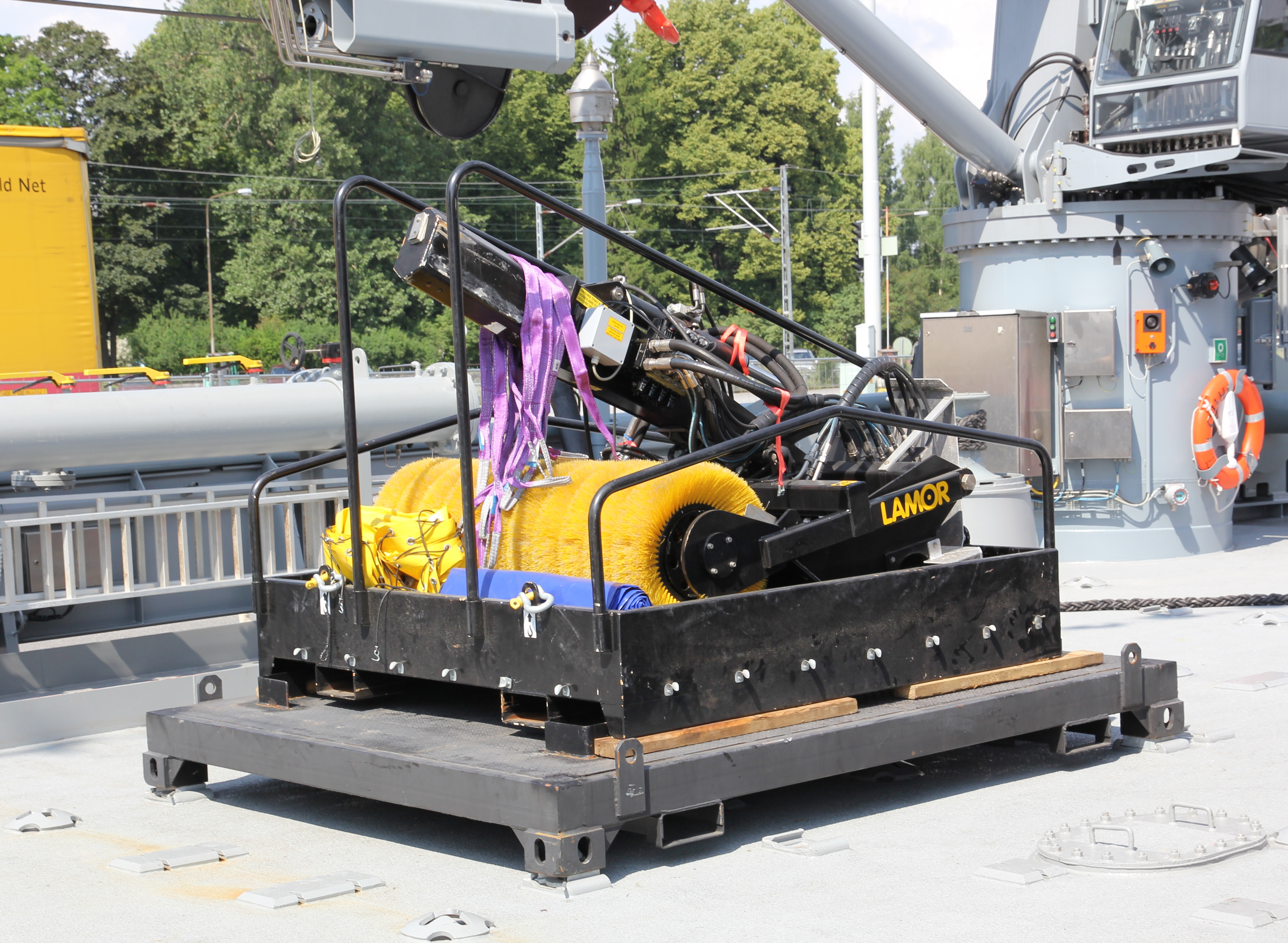 Brush bucket skimmer (Lamor Oil Recovery Bucket) onboard the Finnish multipurpose pollution control vessel Louhi. Photographed during Finnish Navy 2011 anniversary in Turku.